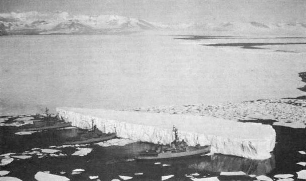 USS Burton Island (AGB-1), USS Atka (AGB-3), and USS Glacier (AGB-4) pushing an iceberg out of the channel in the "Silent Land" near McMurdo Station, Antarctica, 29 December 1965.